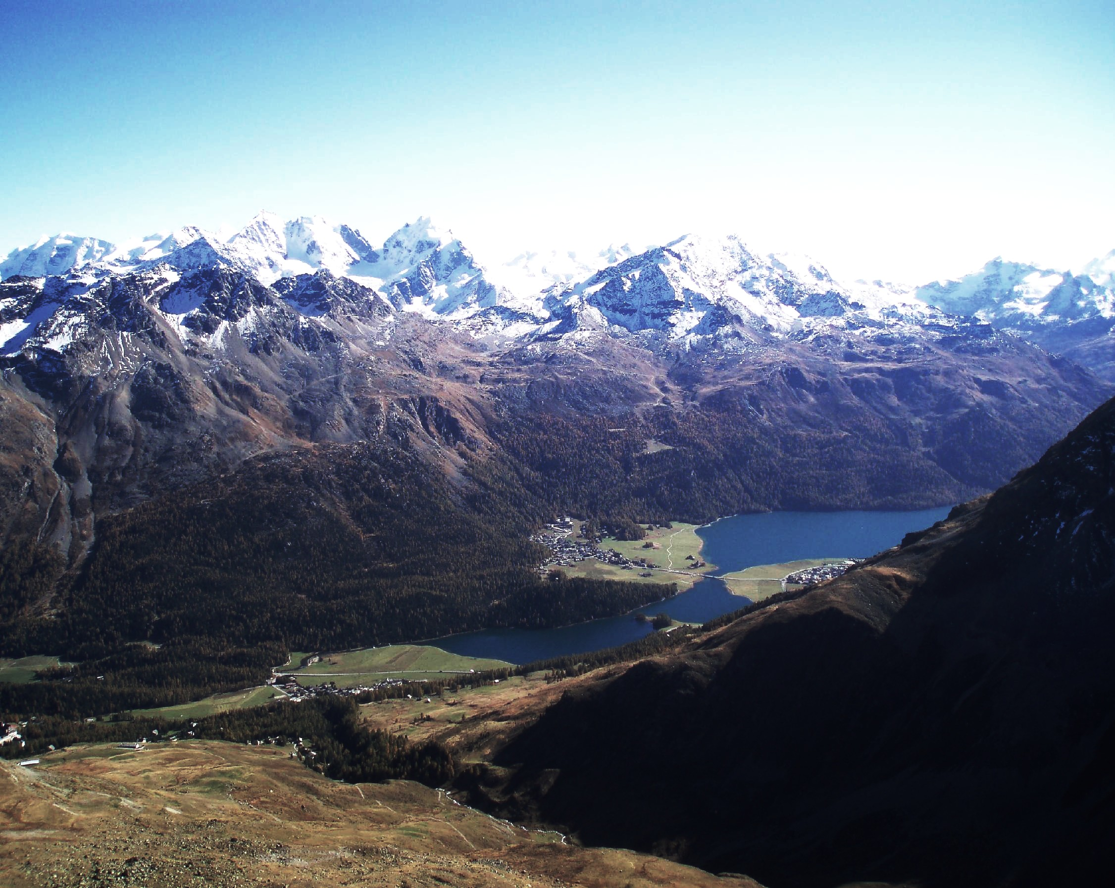 View of Upper Engadin from Piz Nair (3050 m), with Lake Silvaplana, Lej da Champfèr in the center.